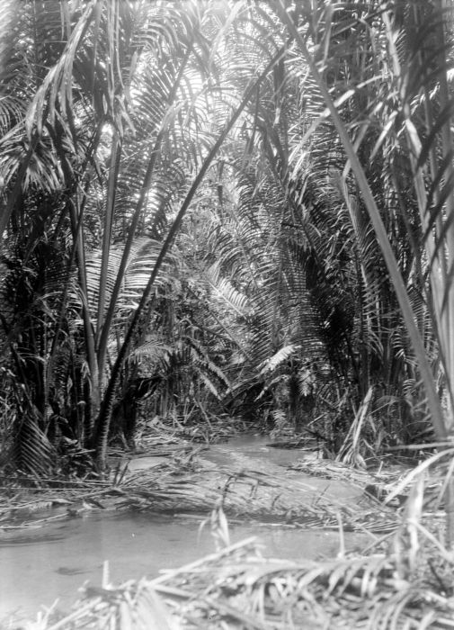 Sago palm trees